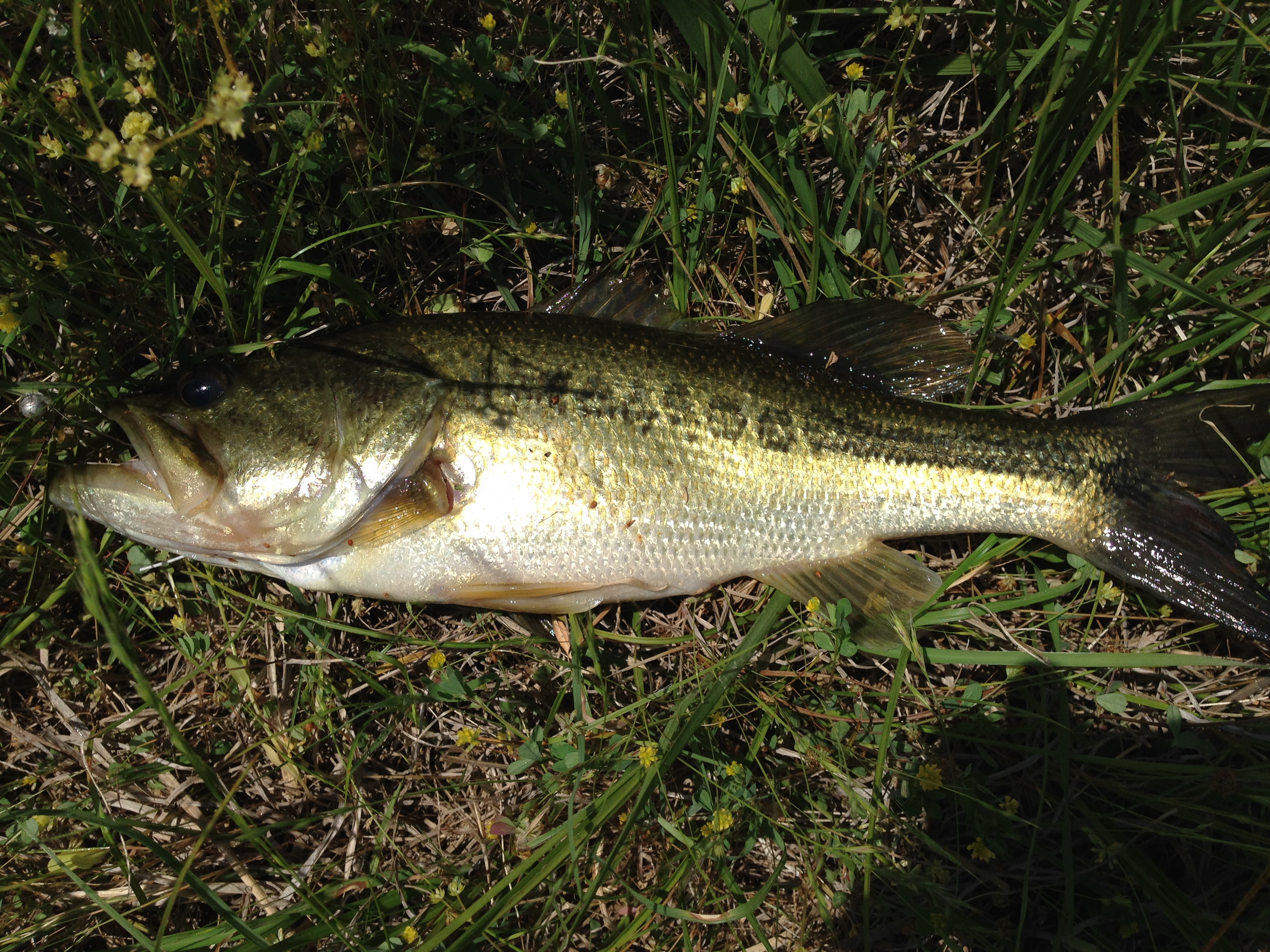 A largemouth bass (Micropterus salmoides) at the University of Mississippi Field Station.